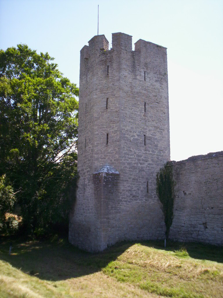 Långa Lisa, City wall of Visby